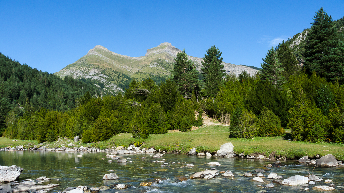 Valle de Bujaruelo This is a photography of a Site of Community Importance in Spain with the ID: ES2410006. Natura2000 entry, EEA entry